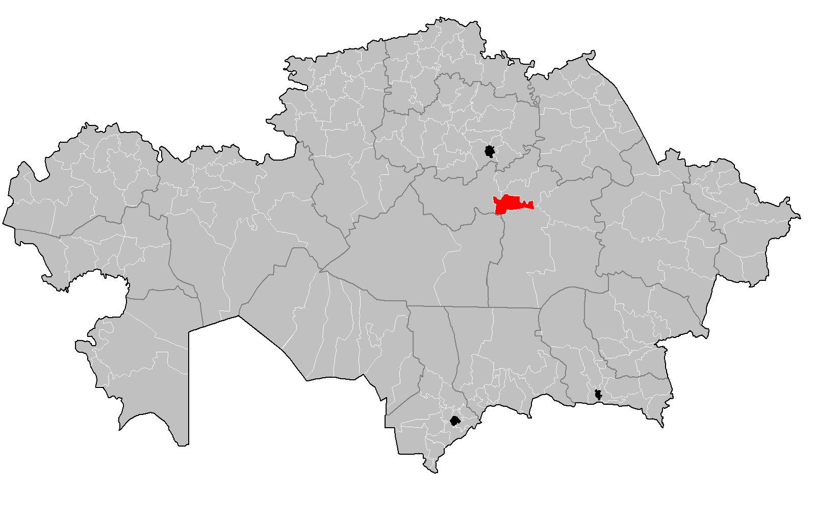 Map of the rayons of Kazakhstan. Created by Rarelibra 16:49, 3 August 2007 (UTC) for public domain use, using MapInfo Professional v8.5 and various mapping resources.